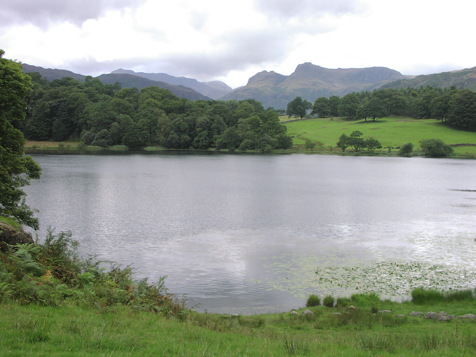 The Langdale Pikes seen in the distance looking across Loughrigg tarn